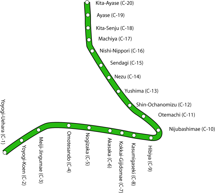 Tokyo Metro Chiyoda Line.